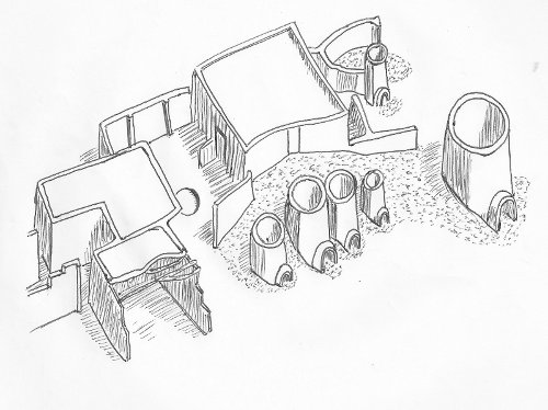 Axiometric reconstruction of Workshop 2 at 'Ayn-Asil, Dakhla Oasis. First Intermediate Periode of Ancient Egypt. The stippling represents the kiln debris. Courtyard with basin for preparing clay leading to workshop and potter's dwelling. The kilns are placed to benefit from the prevailing wind.